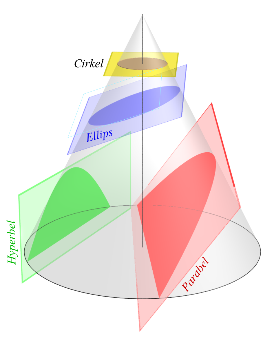 Conic sections